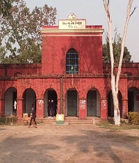 saidpur high school's image